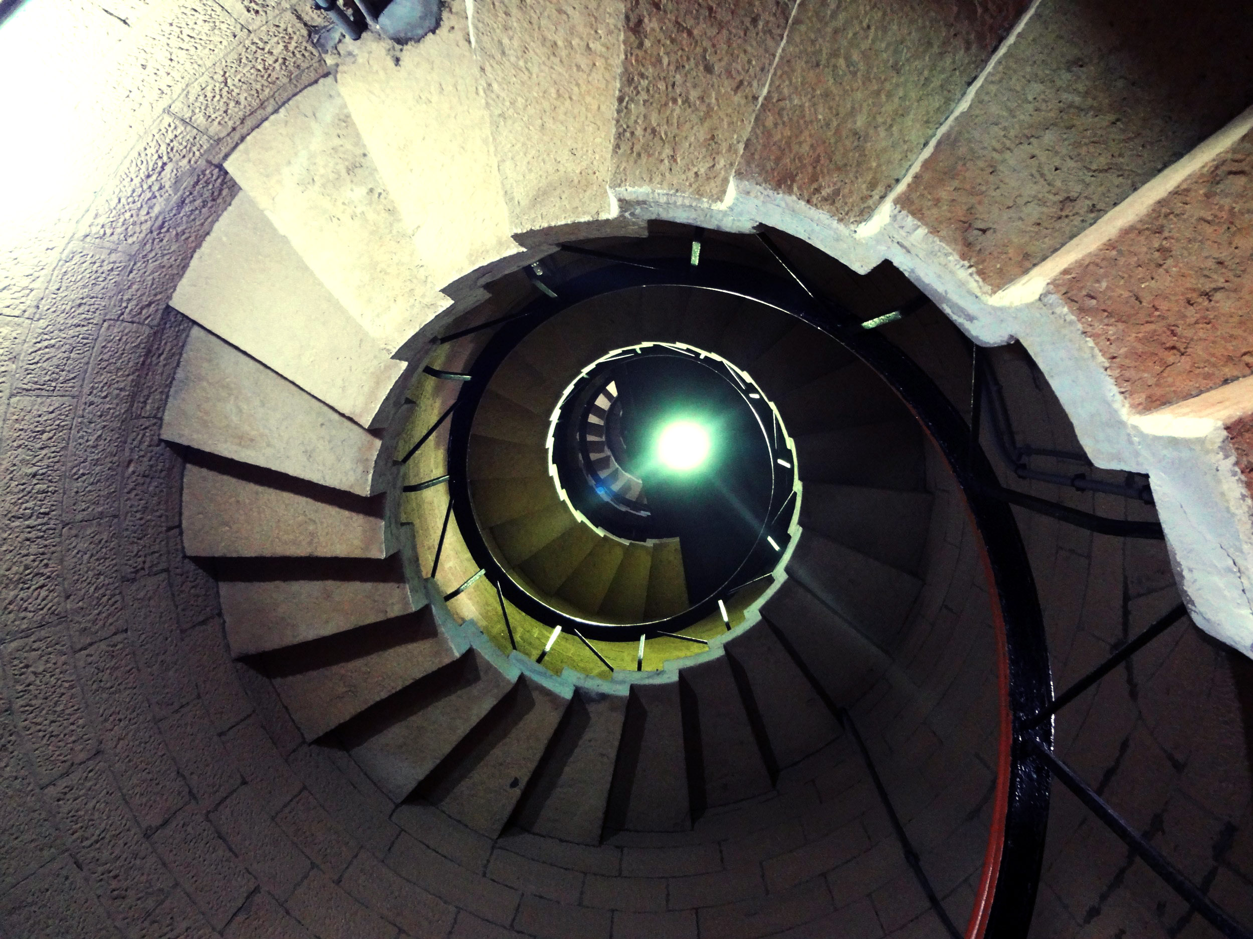 Manora Lighthouse This is a photo of a monument in Pakistan identified as the SD-P-104